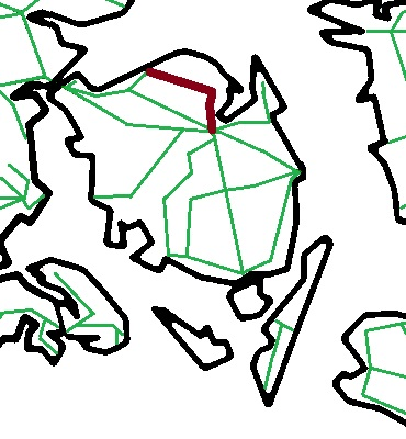 Map of railways on Funen in Denmark with the private railway Nordfyenske Jernbane in brown.